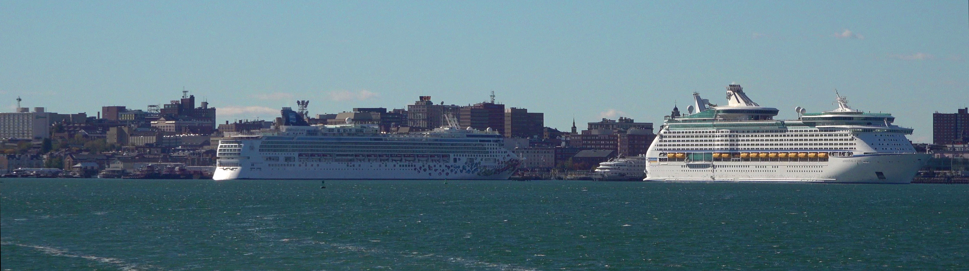 Cruise ships on the waterfront.